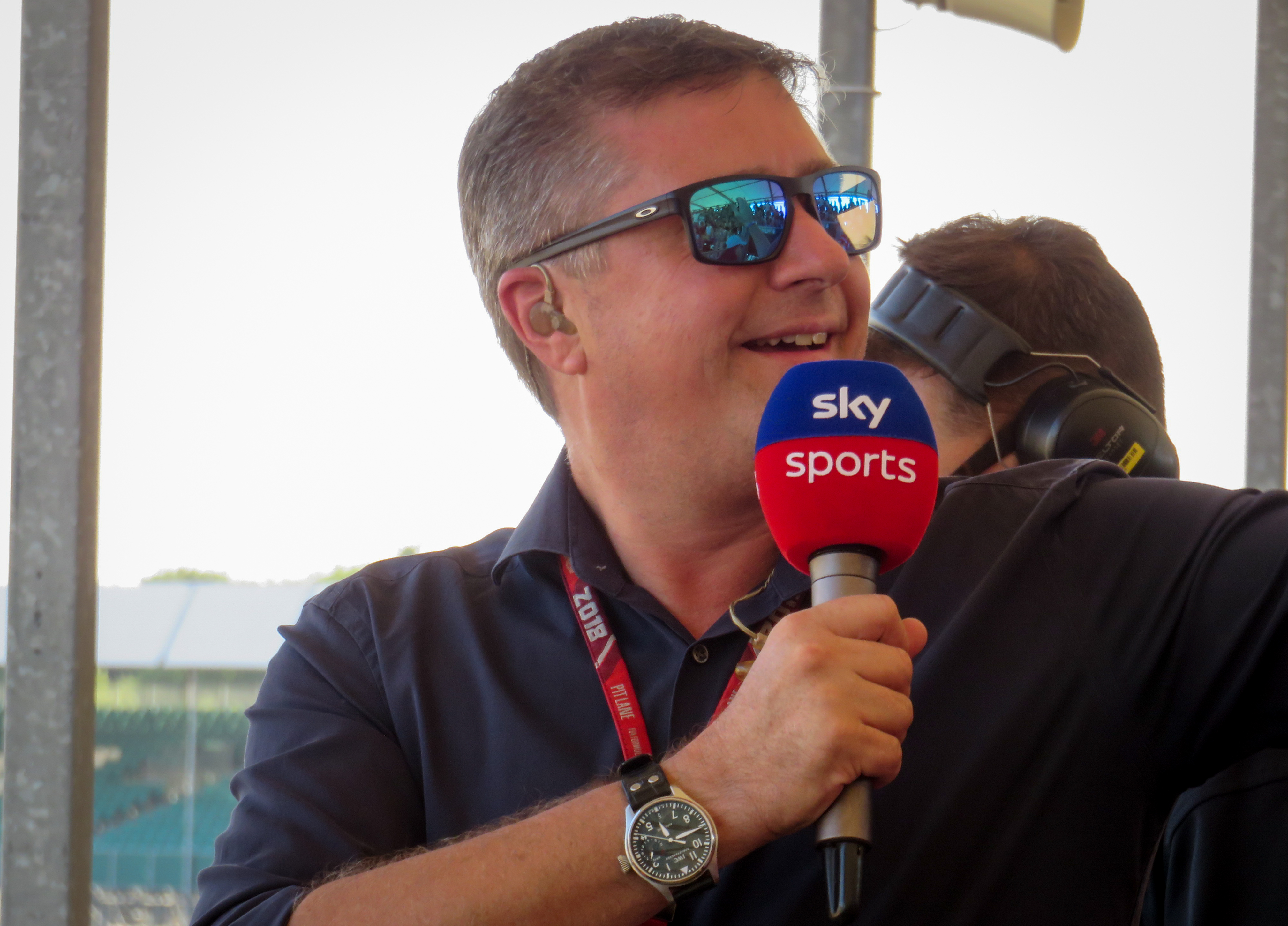 2018 British Grand Prix.